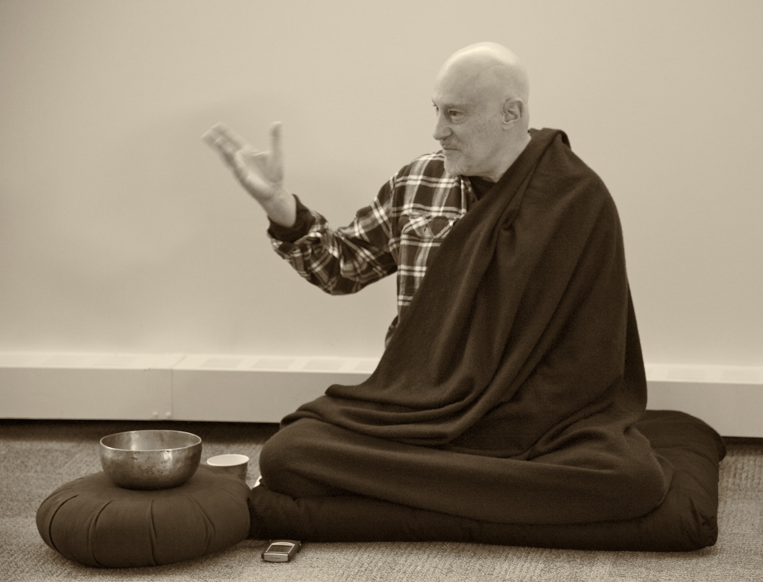 Shinzen Young teaching at Harvard in conjunction with an fMRI study on the restful states of meditators in 2012. Credit c. Har-Prakash Khalsa for any image use